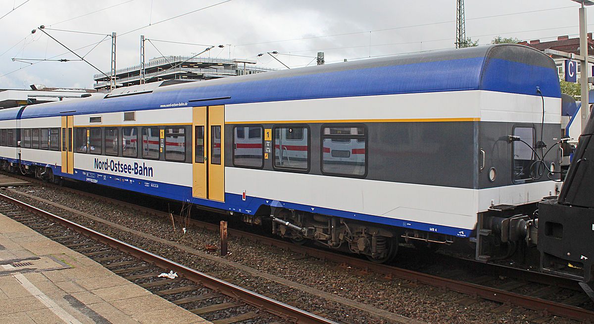 First and second class coach D-NOB 55 80 11-75 004-6 ABpma of type "Married Pair" by Bombardier in a Marschbahn trainset ("Marschbahngarnitur") in service for Hamburg-Köln-Express at station of Hamburg-Altona.